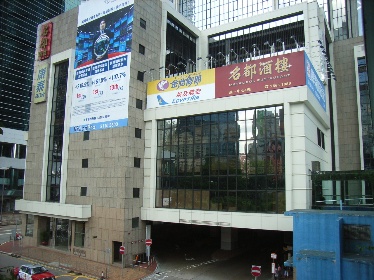 Queensway Bay Road, HK Island Photo by